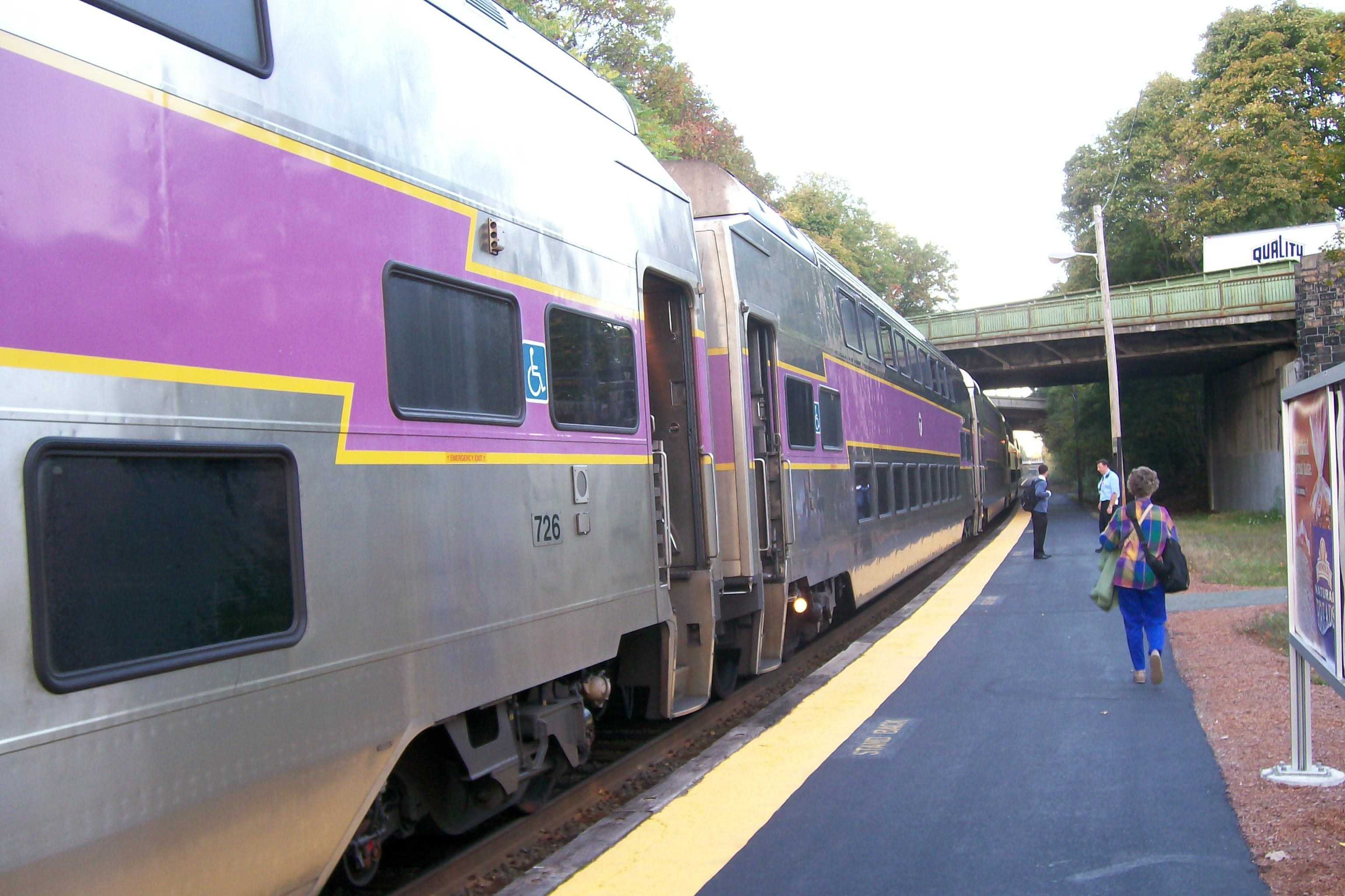 Inbound platform and a train at Wellesley Hills MBTA Commuter Rail station